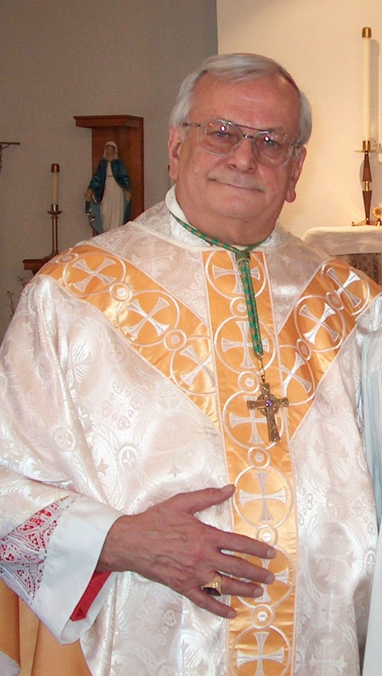 Archbishop Facione, 2004